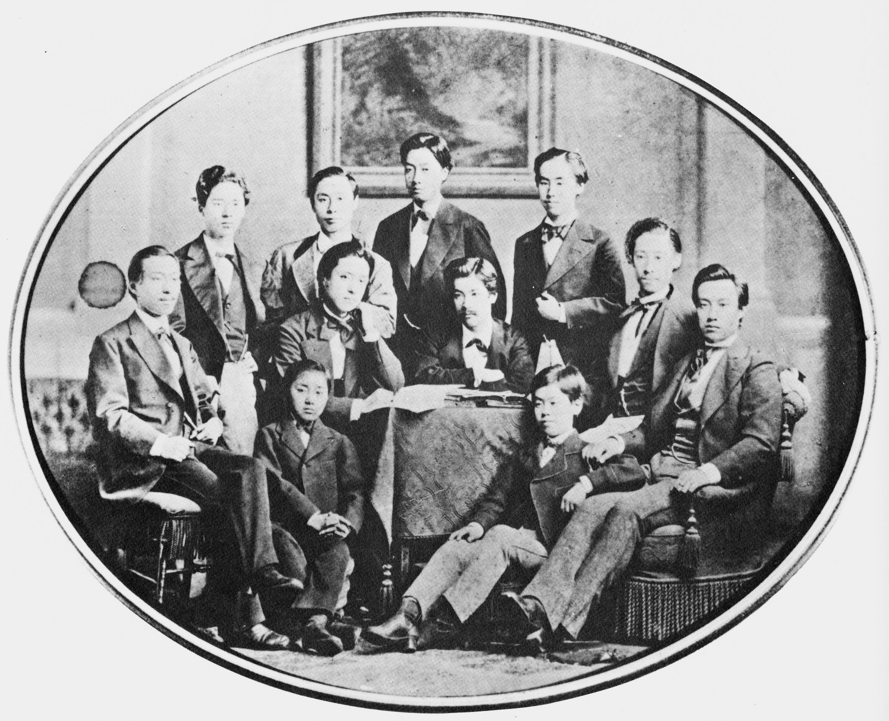 Kitashirakawa at Berlin